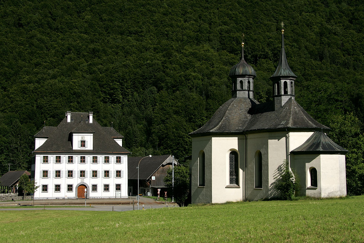 Mansion and chapel in Grafenort, Switzerland